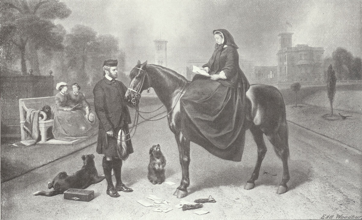 Queen Victorias Christmas Gift to John Brown